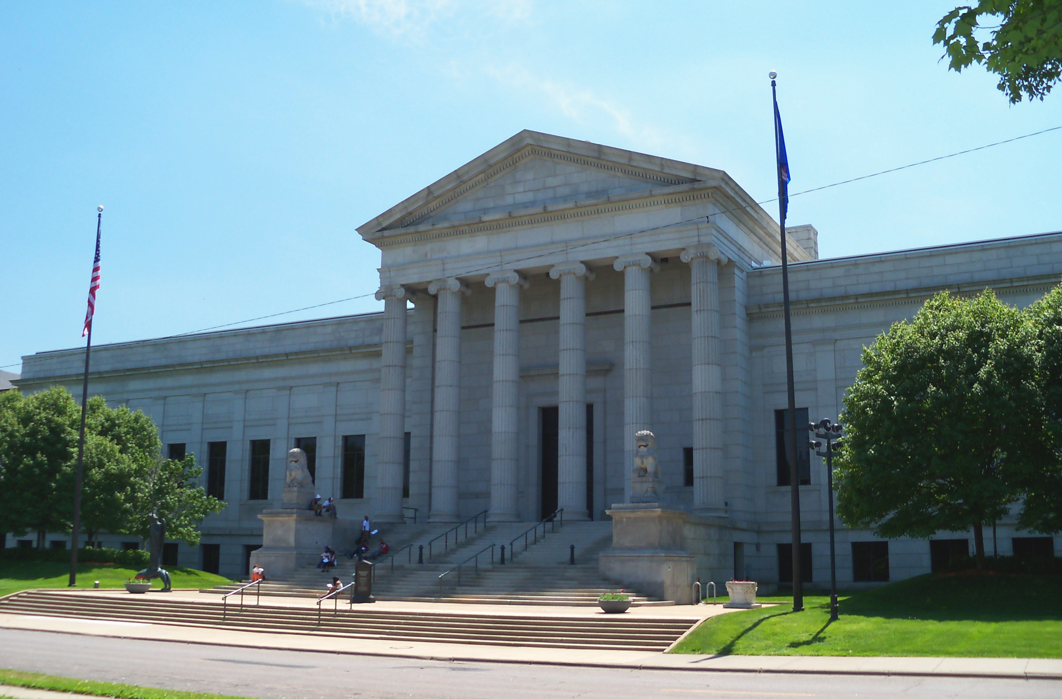 Minneapolis Institute of Art in Minneapolis, Minnesota, USA.